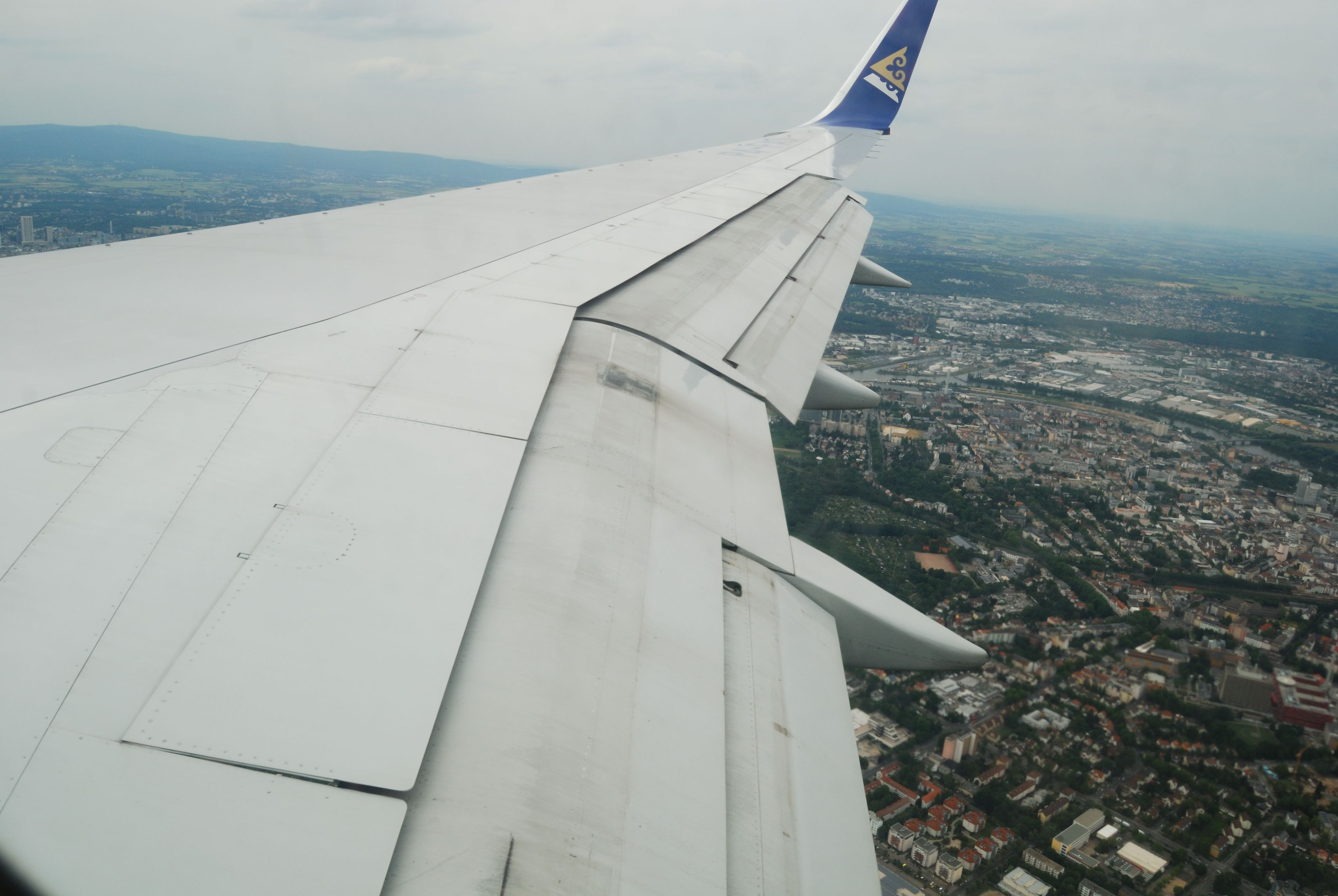 Extended Flap for Landing of a Boeing 767 of Air Astana in Frankfurt, Germany